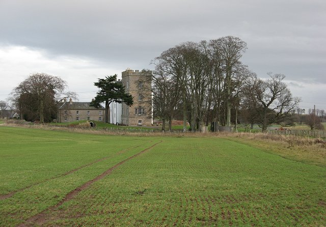 Nisbet House, 17th century tower house, recently renovated.